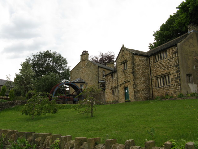 Yorkshire Dales Museum of Lead Mining, Earby This small but interesting museum is housed in the premises of the former Earby Grammar School. Until 1974, Earby was administered by the West Riding County Council, but is now administered by the Borough of Pendle and Lancashire County Council. But most *Earbonians quite rightly regard themselves as Yorkshiremen or women. (*I do not know if this is the correct term for a native of Earby)